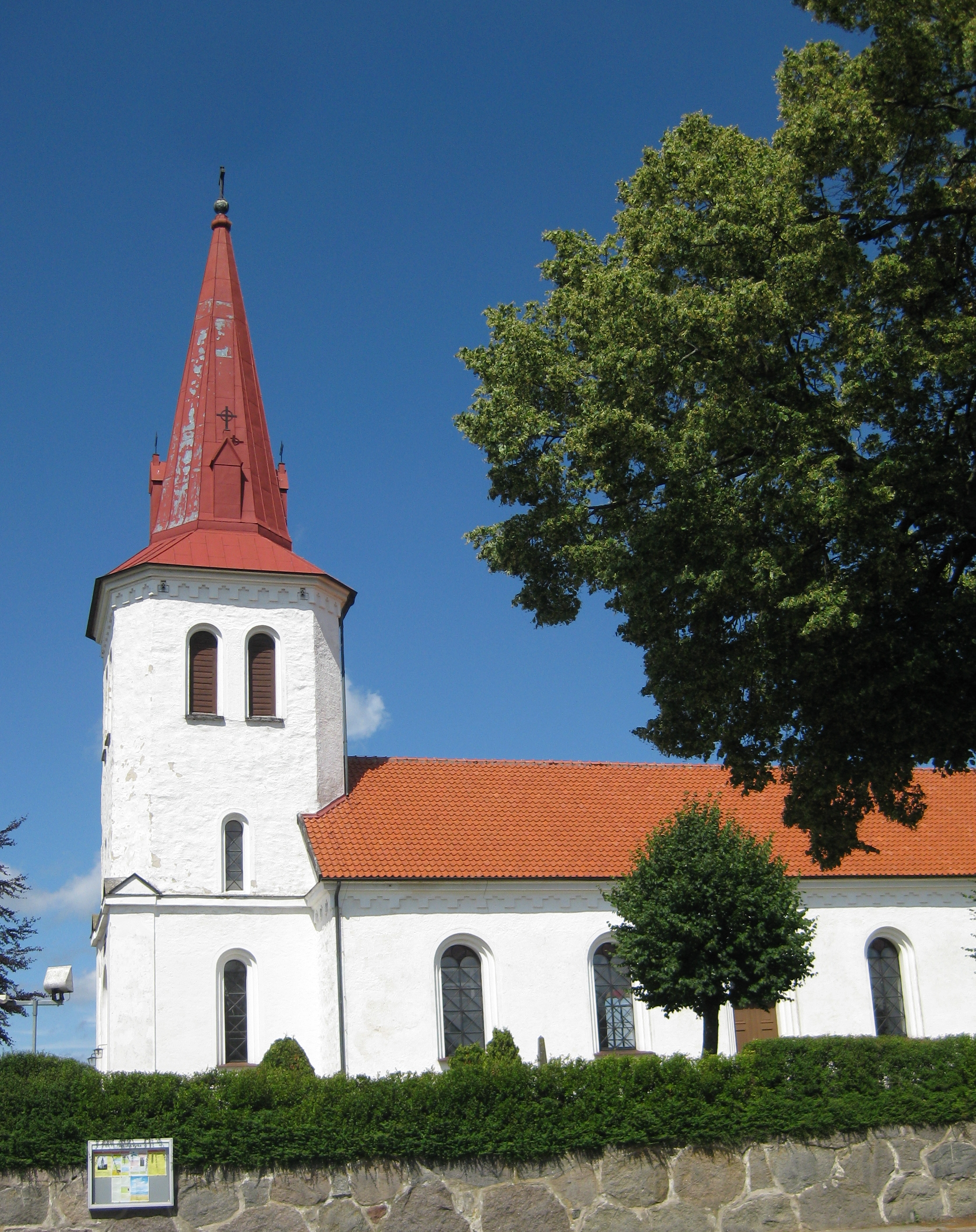 Rörum church in Simrishamn municipality, Scania, Sweden